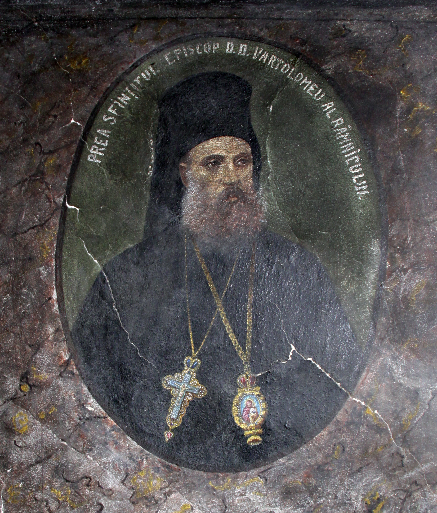 Măgureni, Vâlcea county, Romania: the wooden church, narthex, mural painting, bishop Vartolomeu.